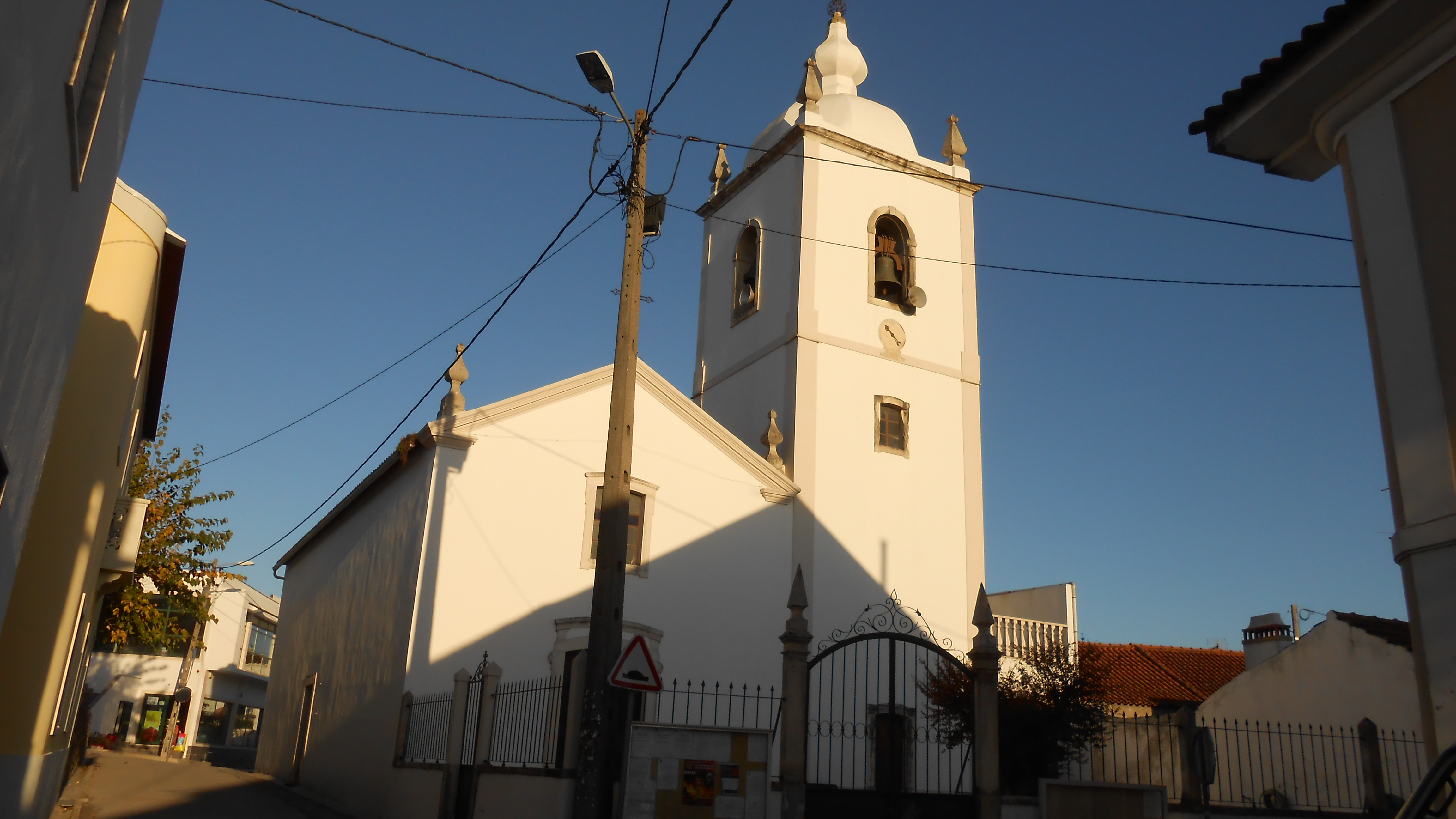 The main church in Vila Nova de Aços.